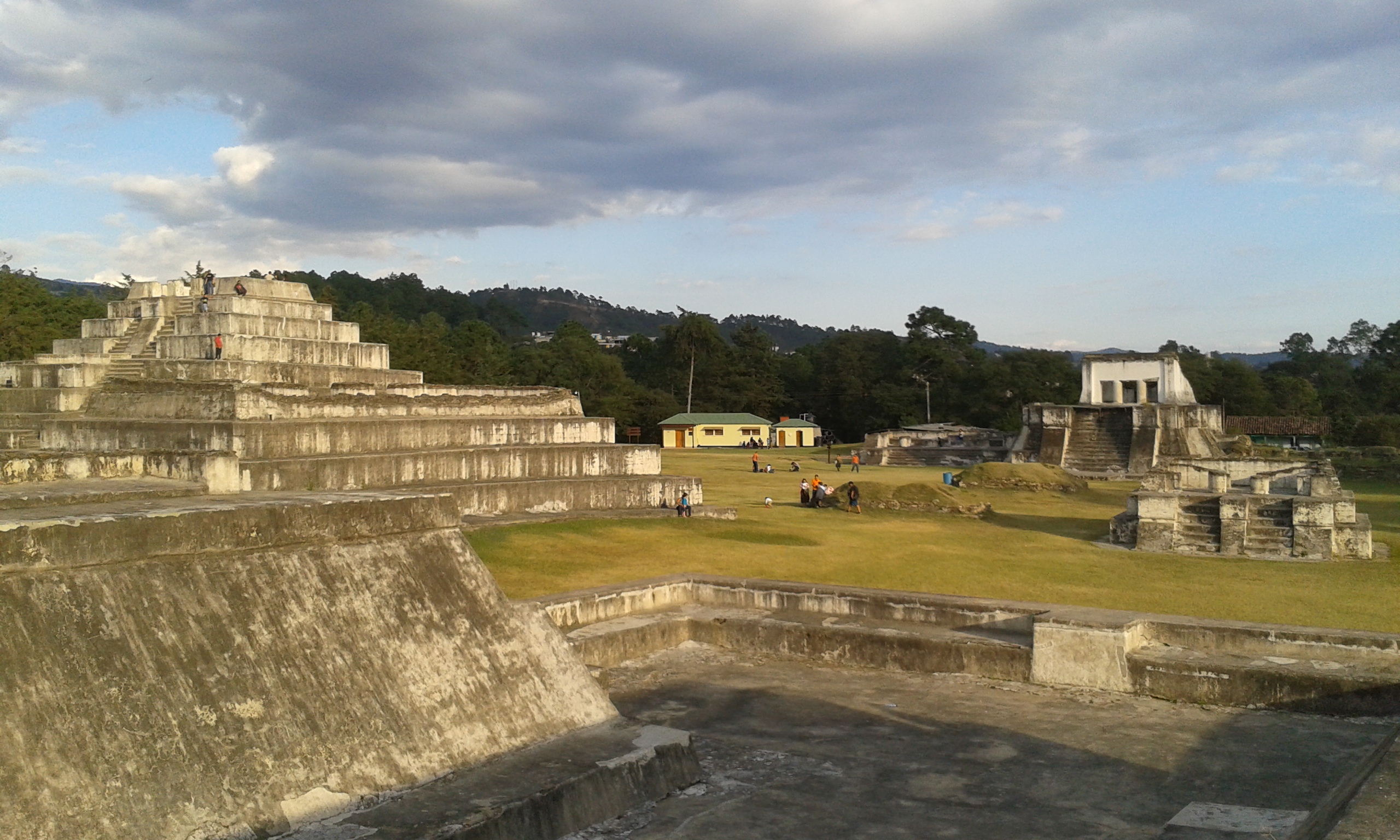 Zaculeu, Mam Maya ruins in Huehuetenango, Guatemala.